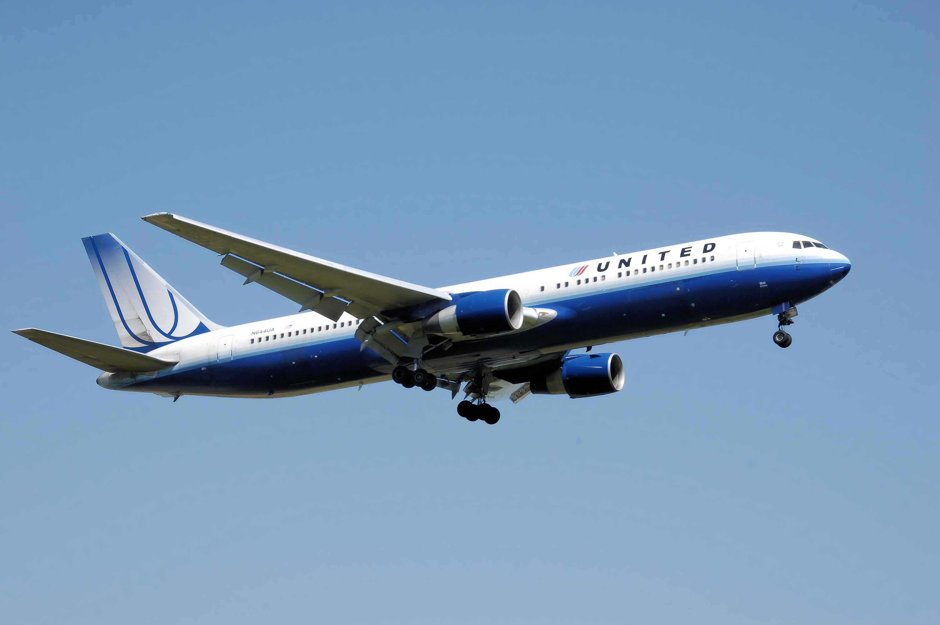 United Airlines Boeing 767-300 (N644UA) lands at London Heathrow Airport, England.